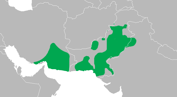 Sind Woodpecker (Dendrocopos assimilis) distribution map